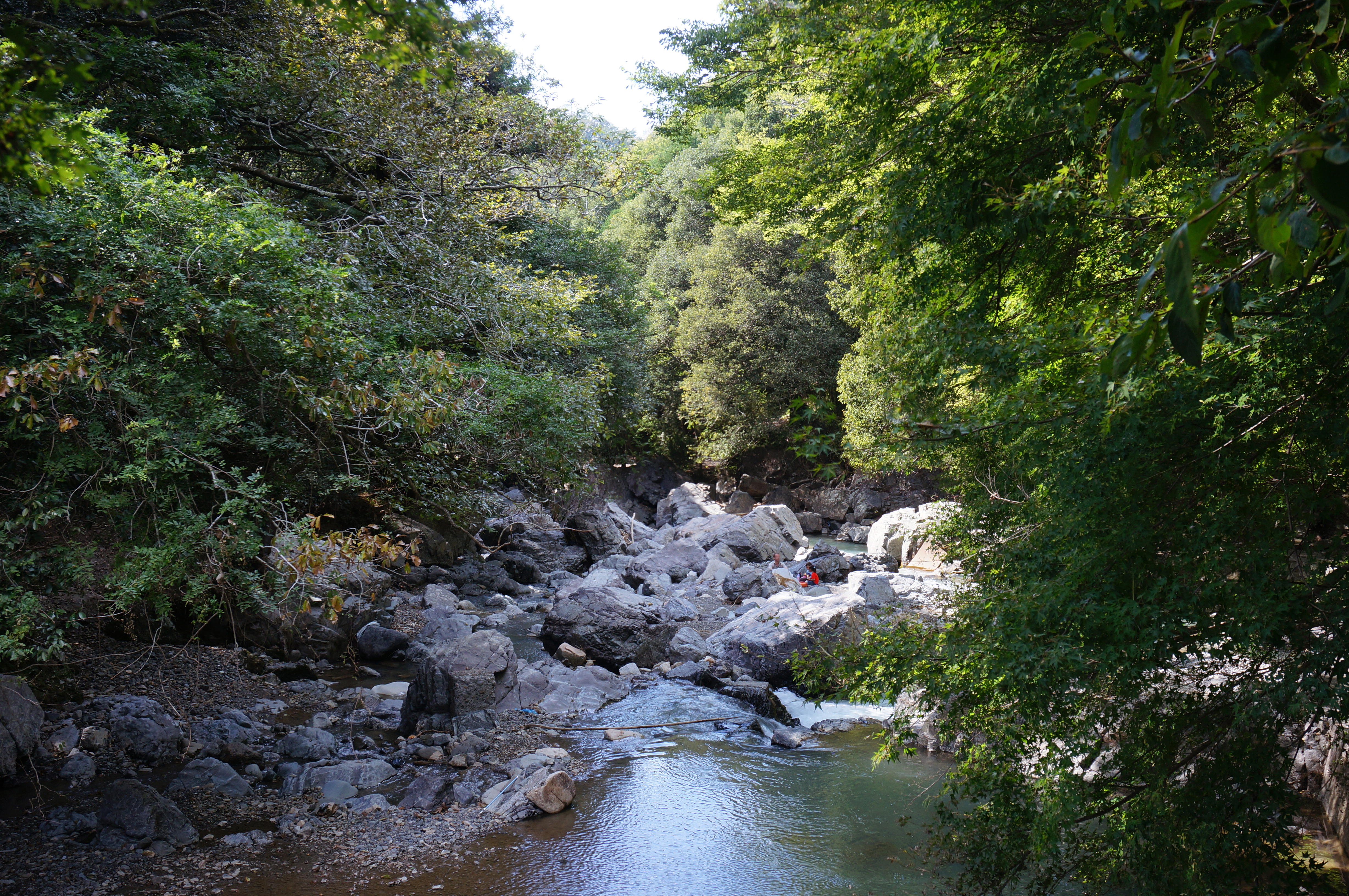 Settsu-kyo in Takatsuki, Osaka prefecture, Japan.